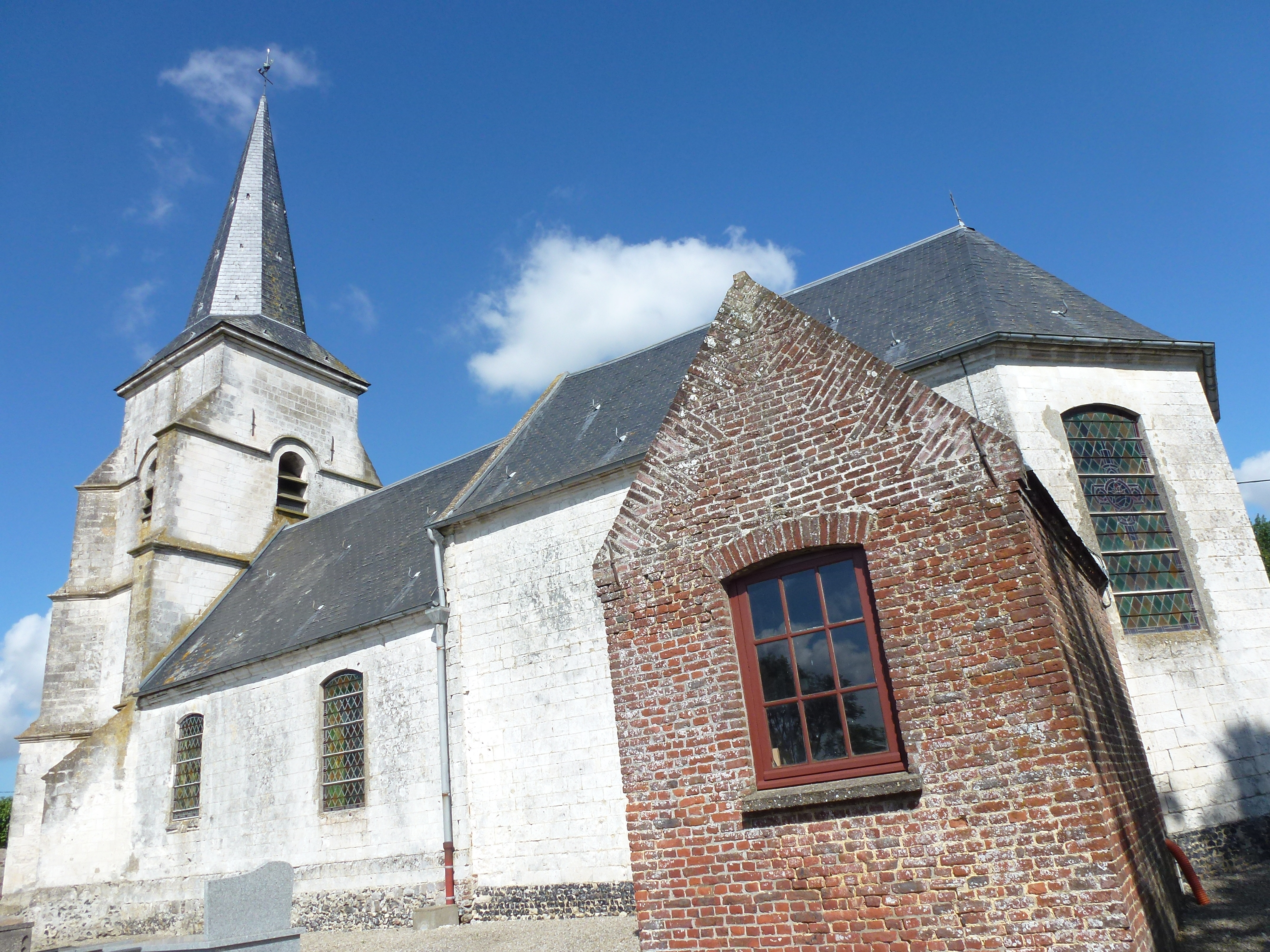 Delettes (Pas-de-Calais) Upon d'Aval, église